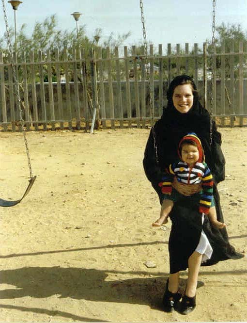 a picture of author Zoe Ferraris in Saudi Arabia.